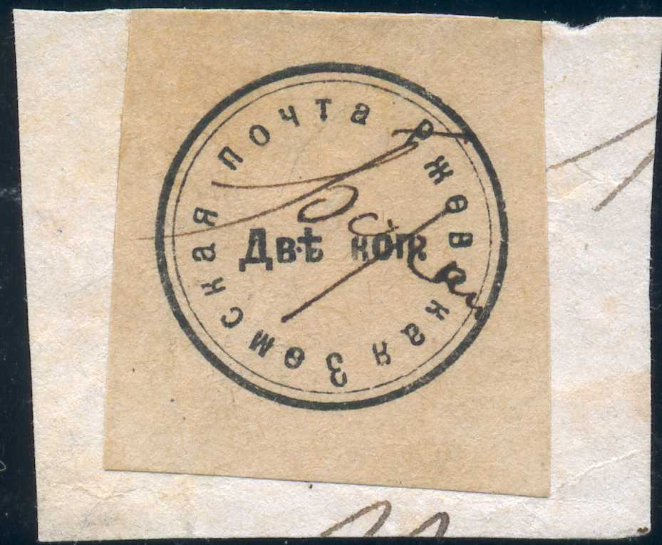 1883 Rzhev Zemstvo stamp, Tver Governorate, Russia, 2 kopecks, Schmidt #25U